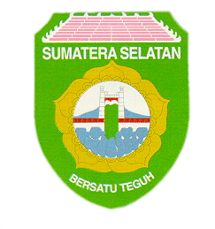 Coat of Arms of Indonesian province of South Sumatra.